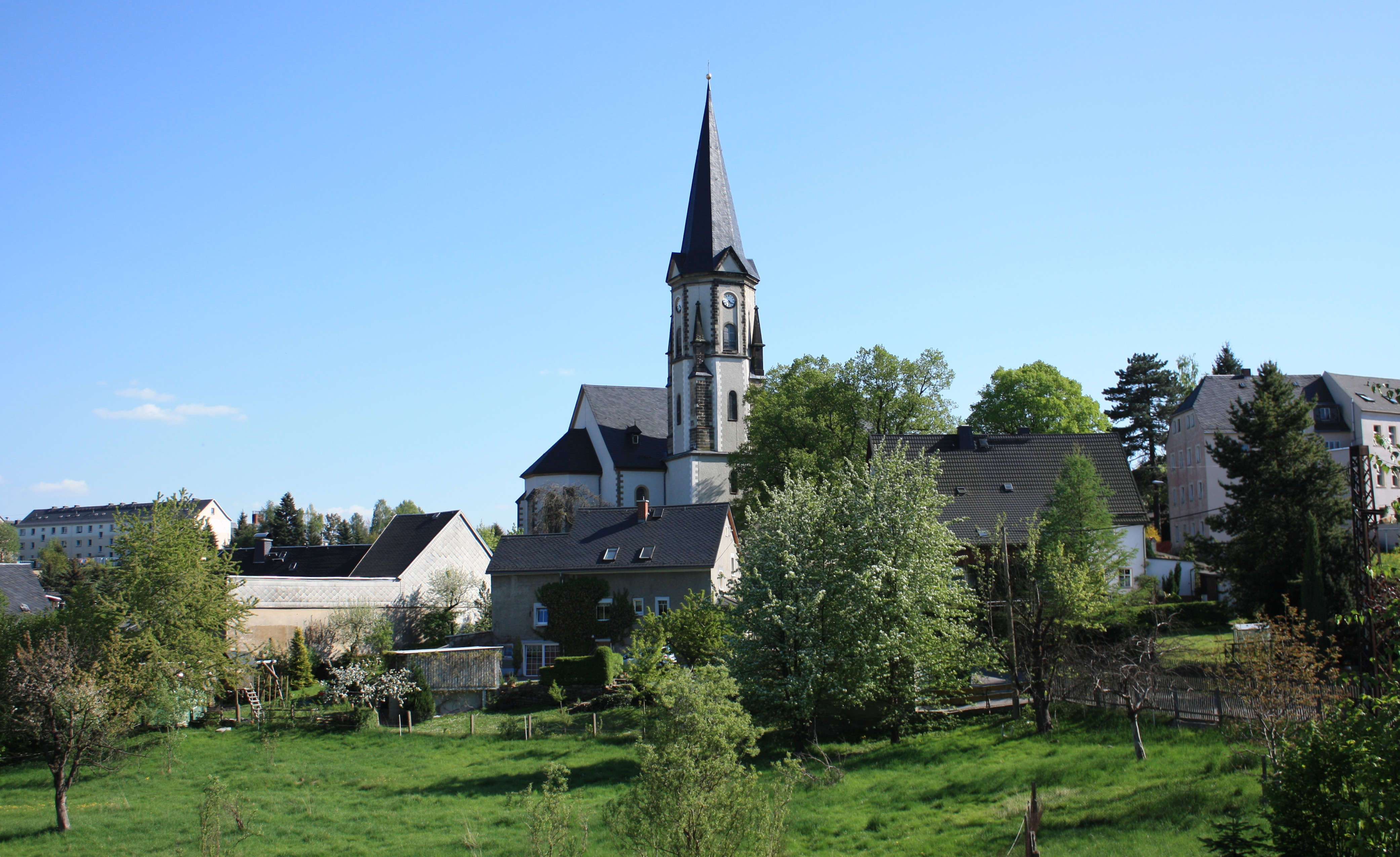 Lengefeld with Church